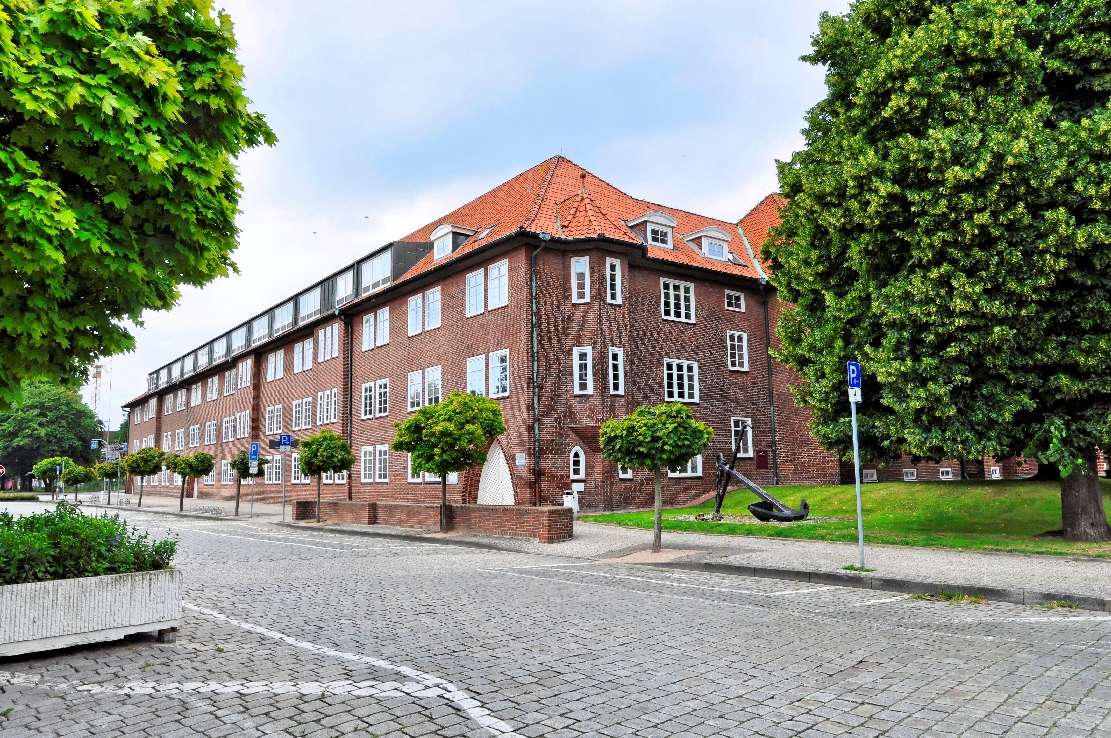 Rathaus Cuxhaven 2015